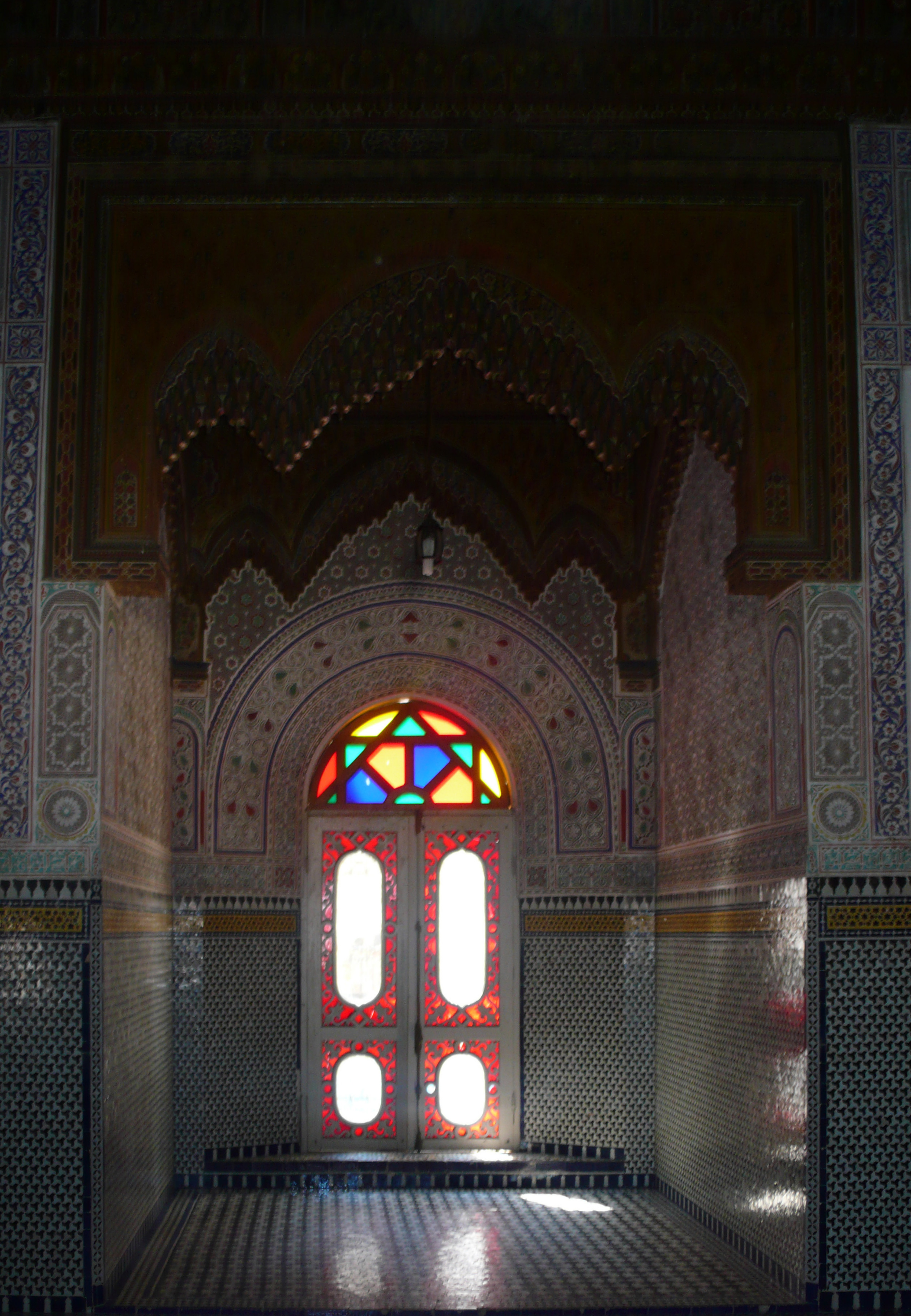 Decorated room in a palace in Fes (most likely Riad Driss Moqri).